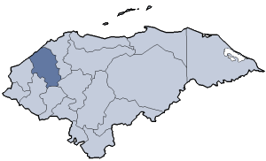 Santa Bárbara, Division of Honduras